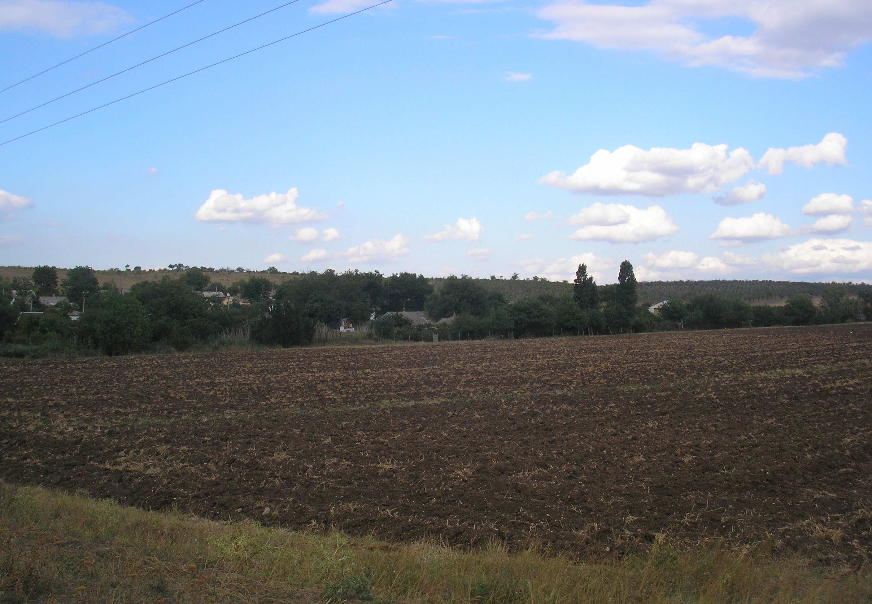 Village Dubrovka, Bakhchisaray Raion 2